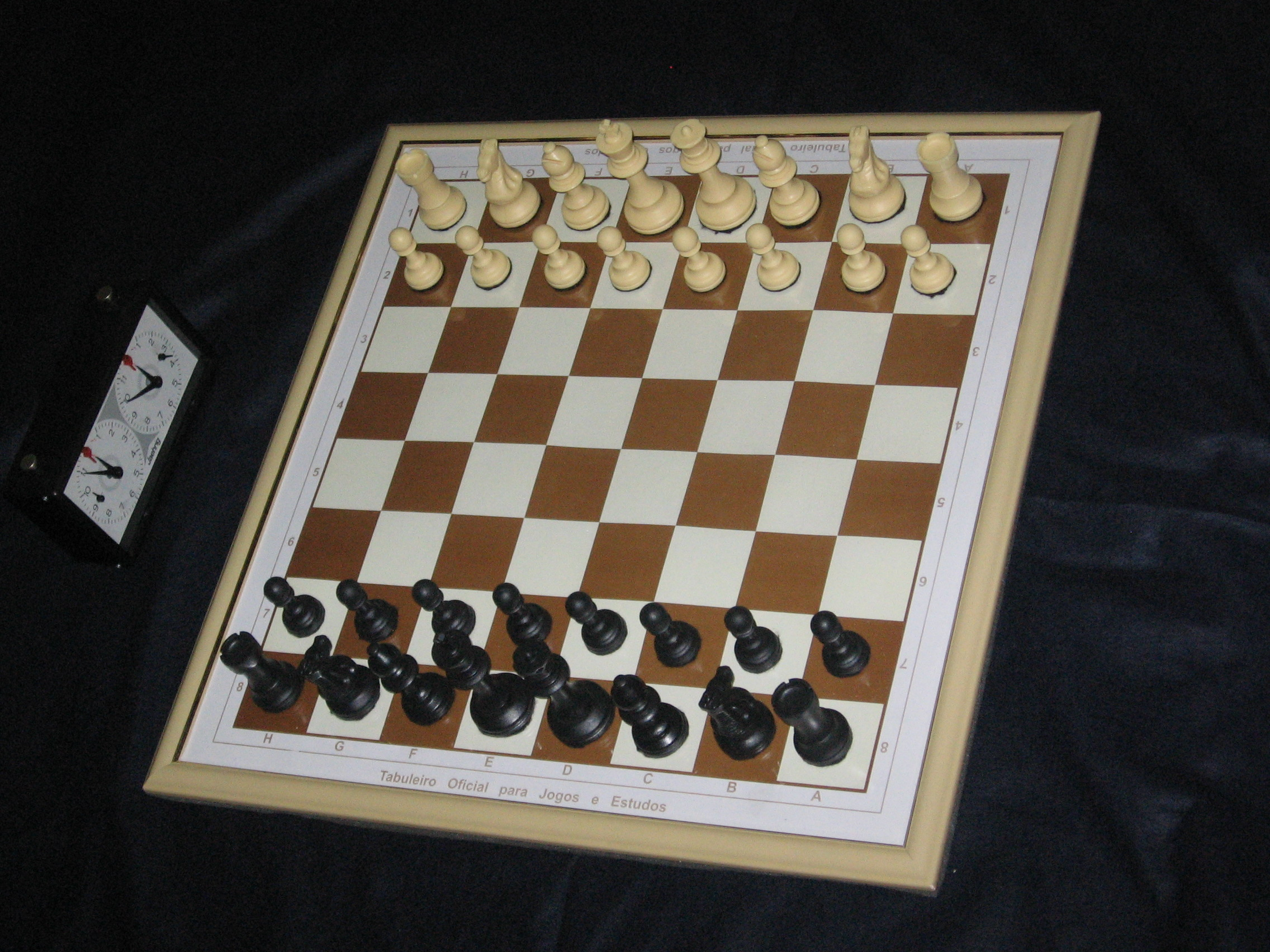 A sample of official size chess pieces in the starting position on a board with algebraic notation markings. A chess clock is nearby.